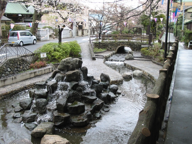 Furukawa Shinsui Park in Edogawa Ward, Tokyo, Japan